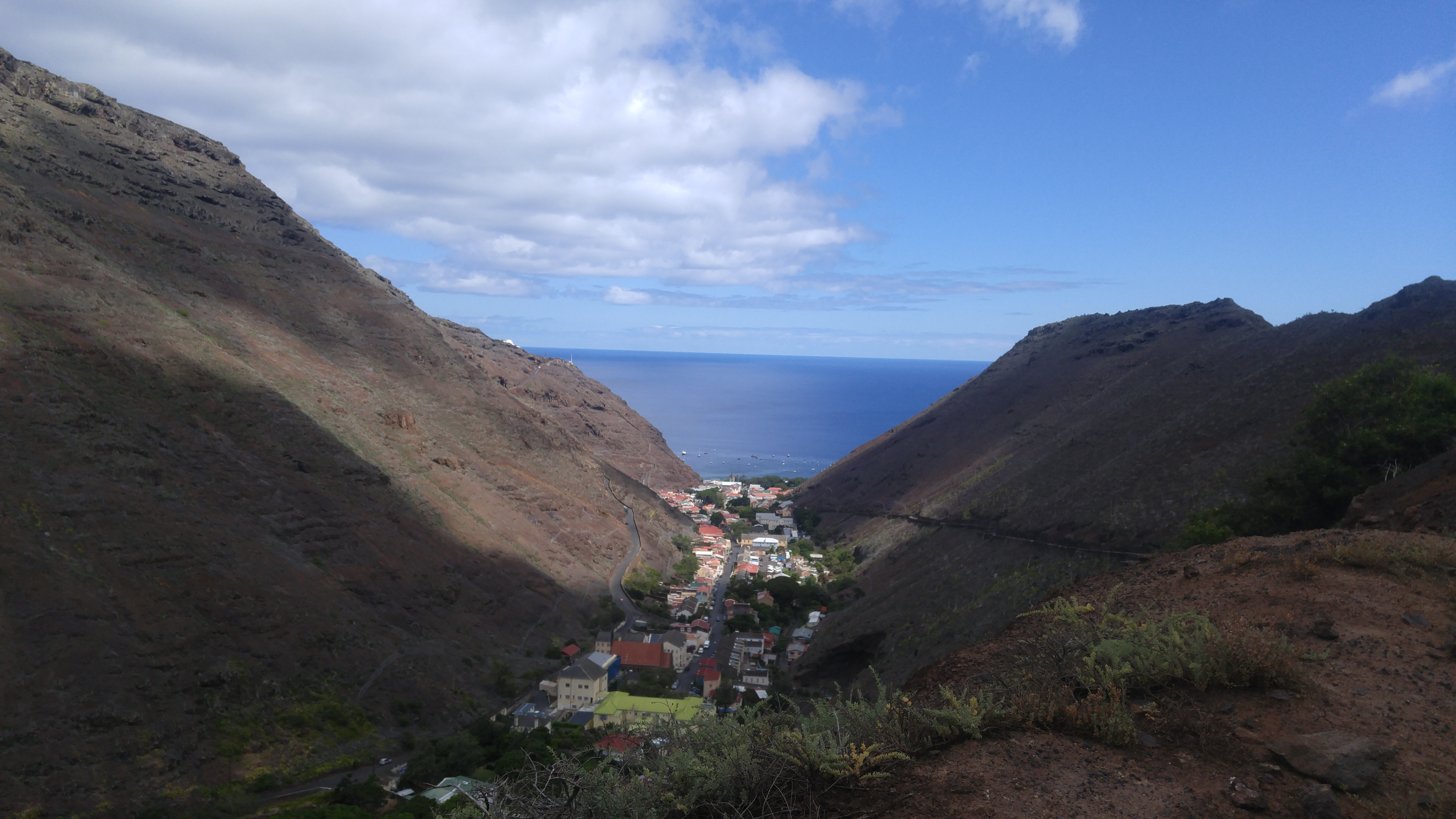 View of Jamestown Saint Helena from the south in March 2020. The town is full of well-preserved Georgian buildings, crowded in a long, narrow valley between steep barren hills leading to the sea